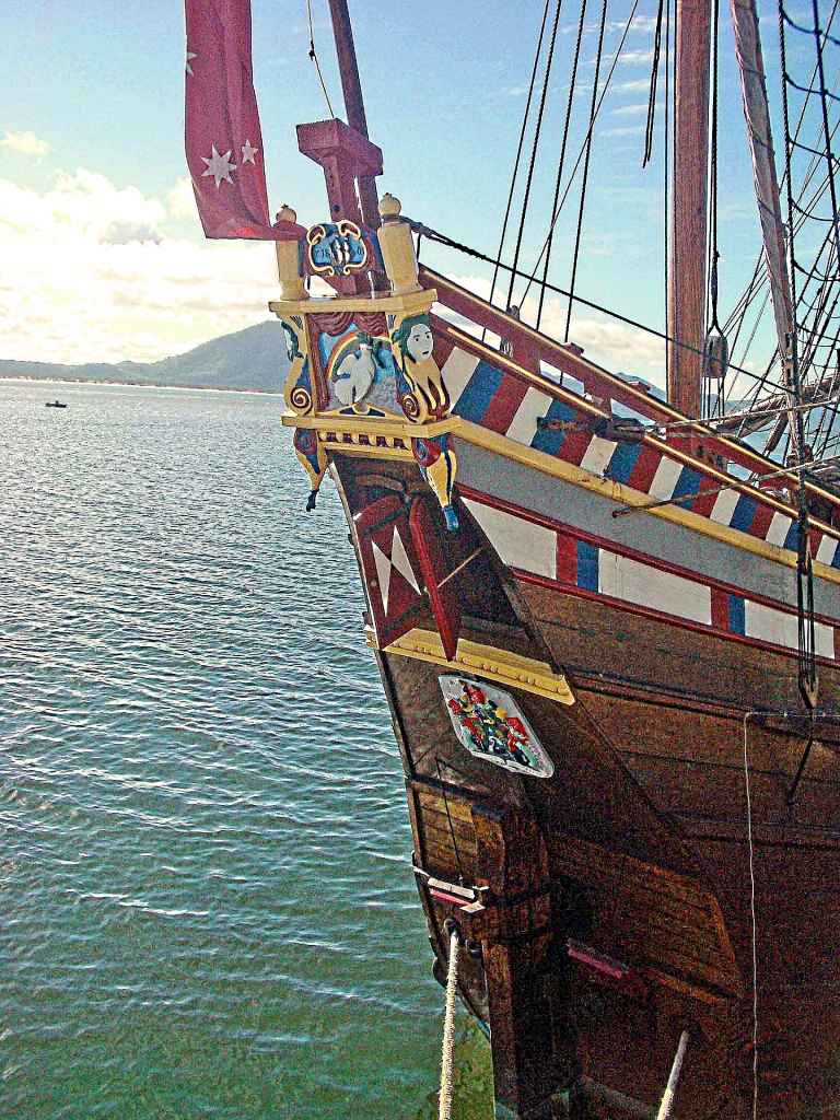 I took this photo in Cooktown harbour in 2009